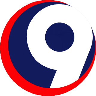 Logo of 9TV